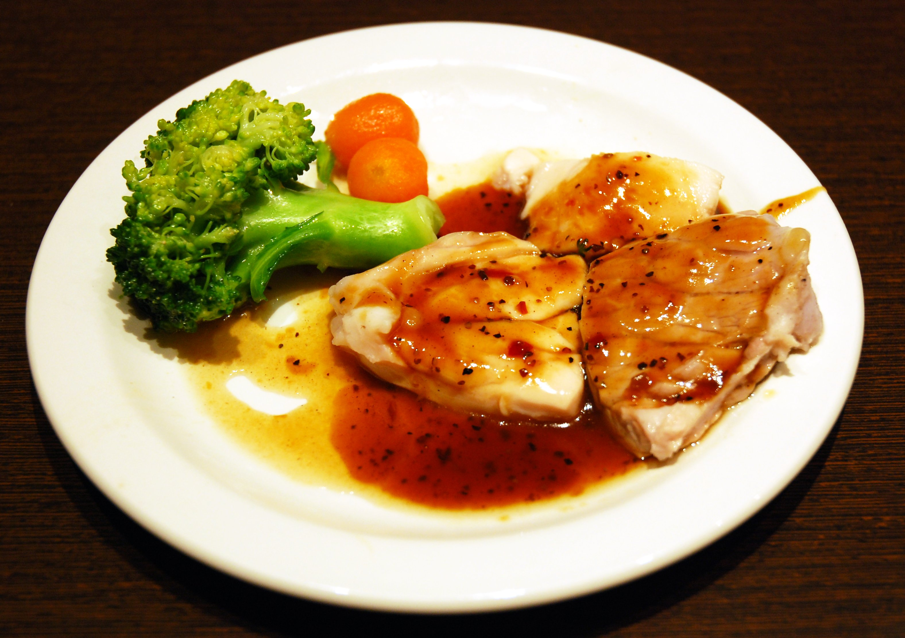 A dish prepared using the meat of the ocean sunfish, Mola mola